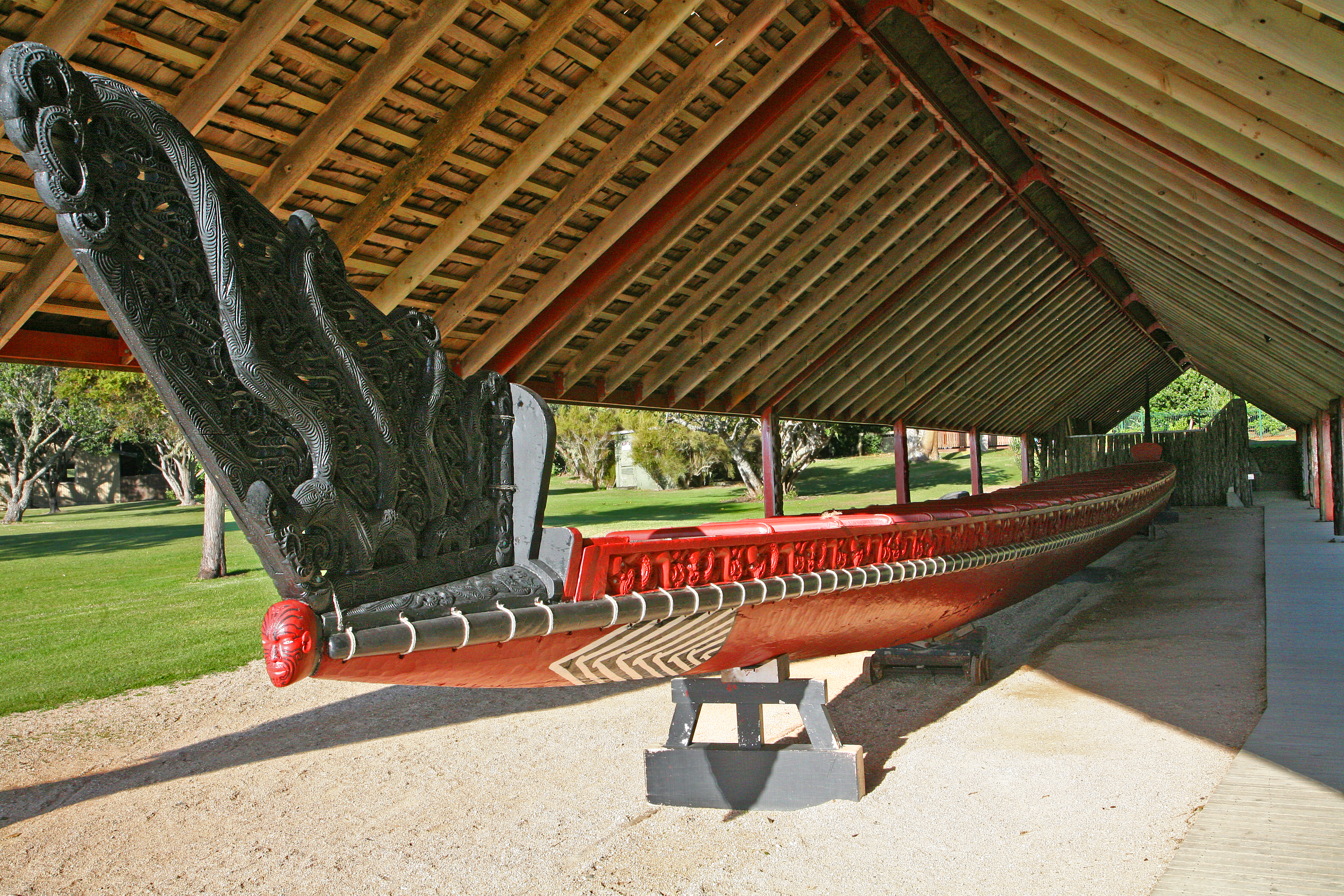 Waitangi (New Zealand): A boathouse with tradional Maori war conoe (Ngā Toki Matawhaorua)